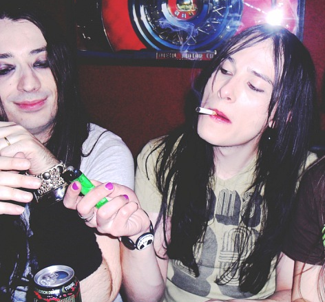 Members of Italian industrial-rock band Dope Stars Inc. during their afterparty in Moscow tour, presumable in the year 2010.